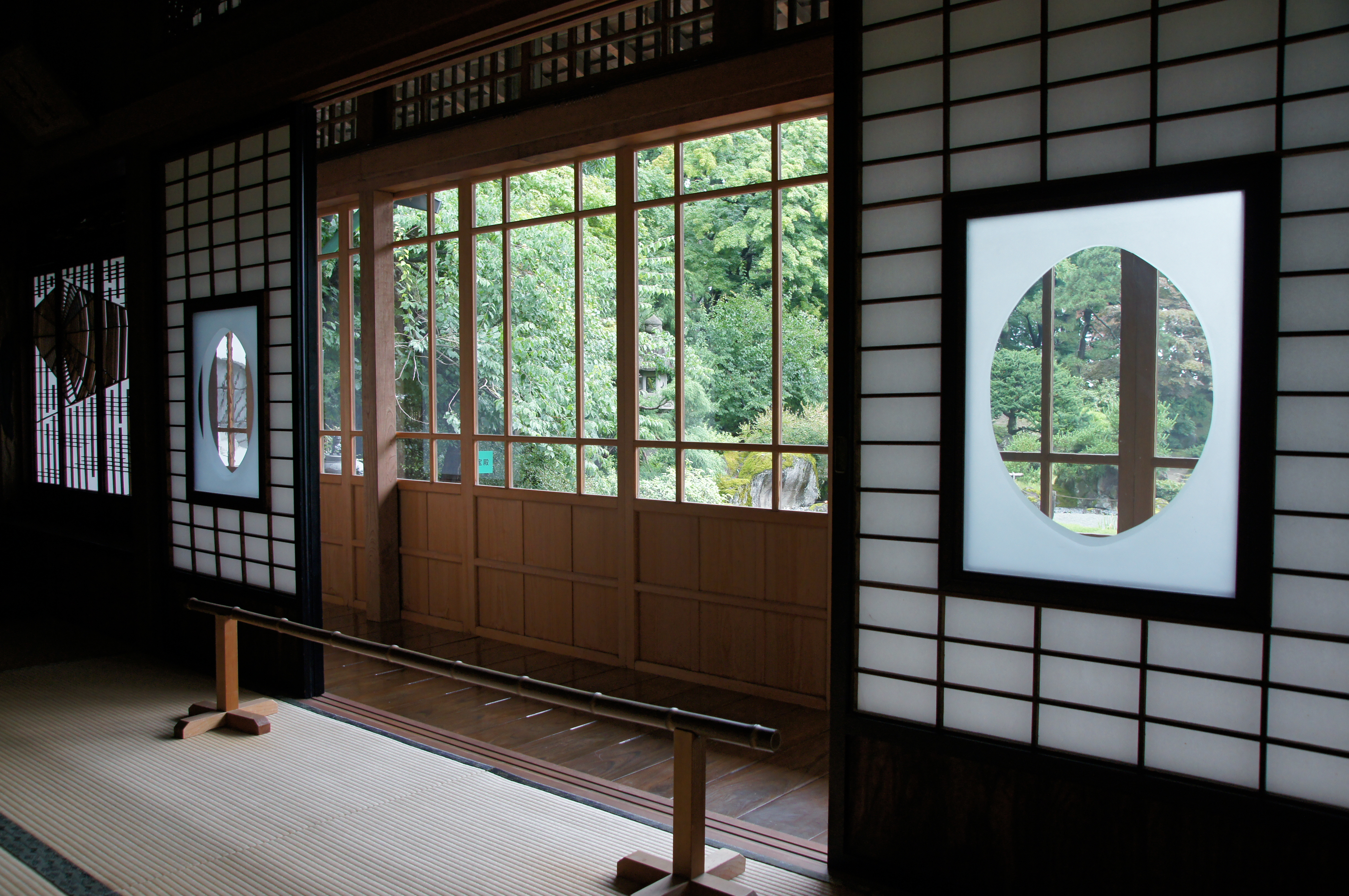 Seibi-en in Hirakawa, Aomori prefecture, Japan